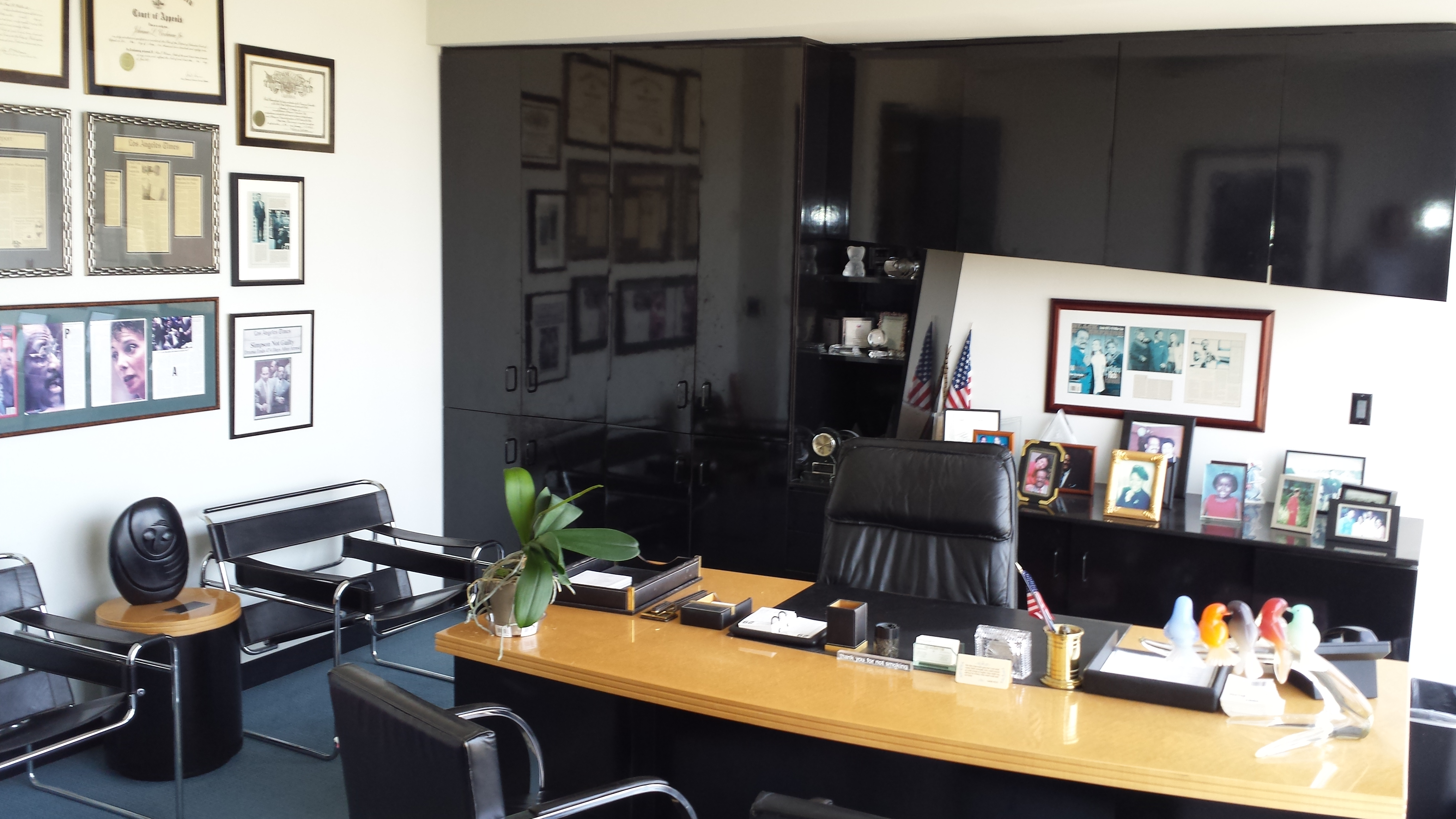 Office of Johnnie L. Cochran(1937-2005), maintained in memoriam at The Cochran Firm - 4949 Wilshire Blvd. in Los Angeles, CA